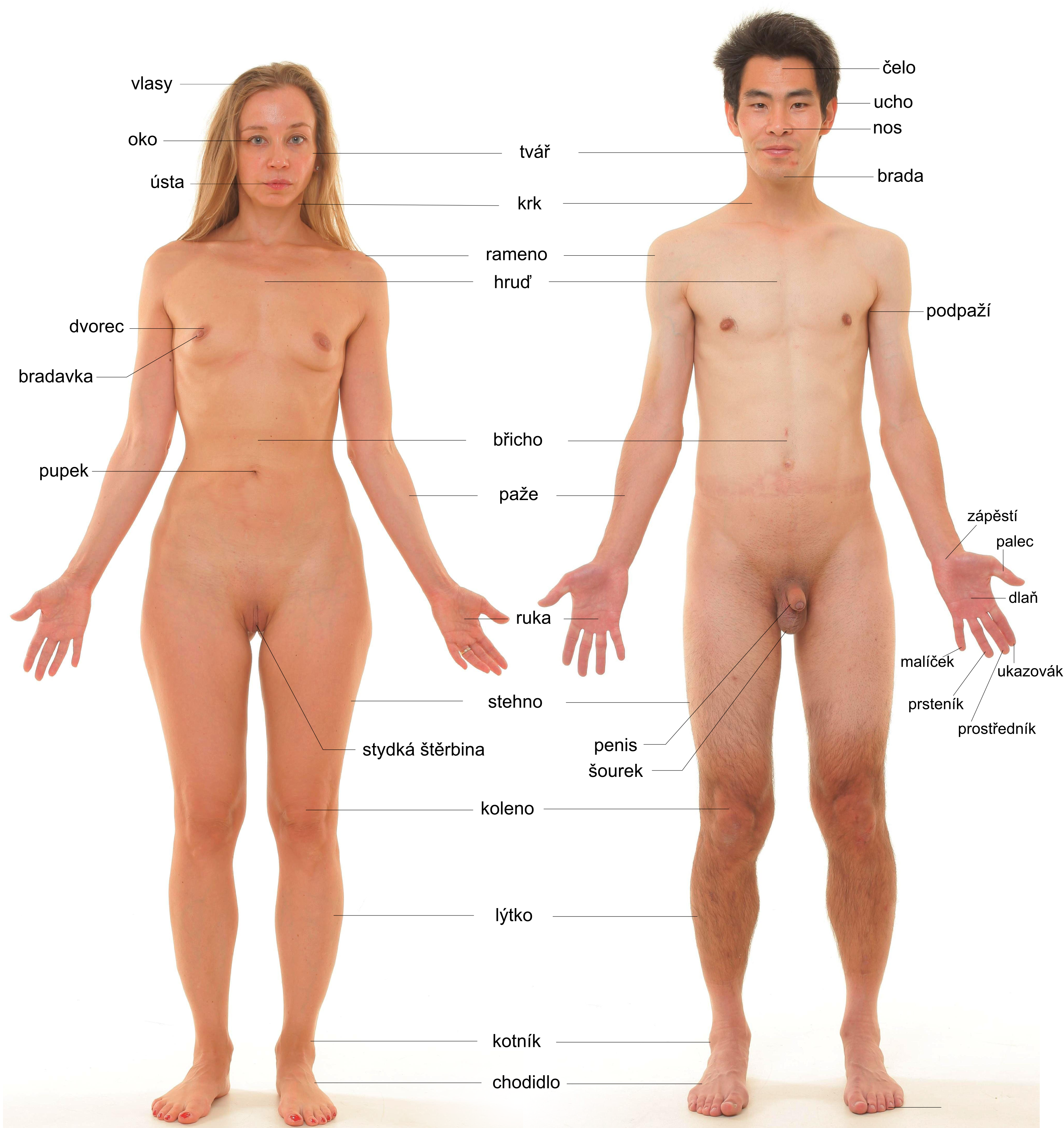 Naked female and male human body with labels.